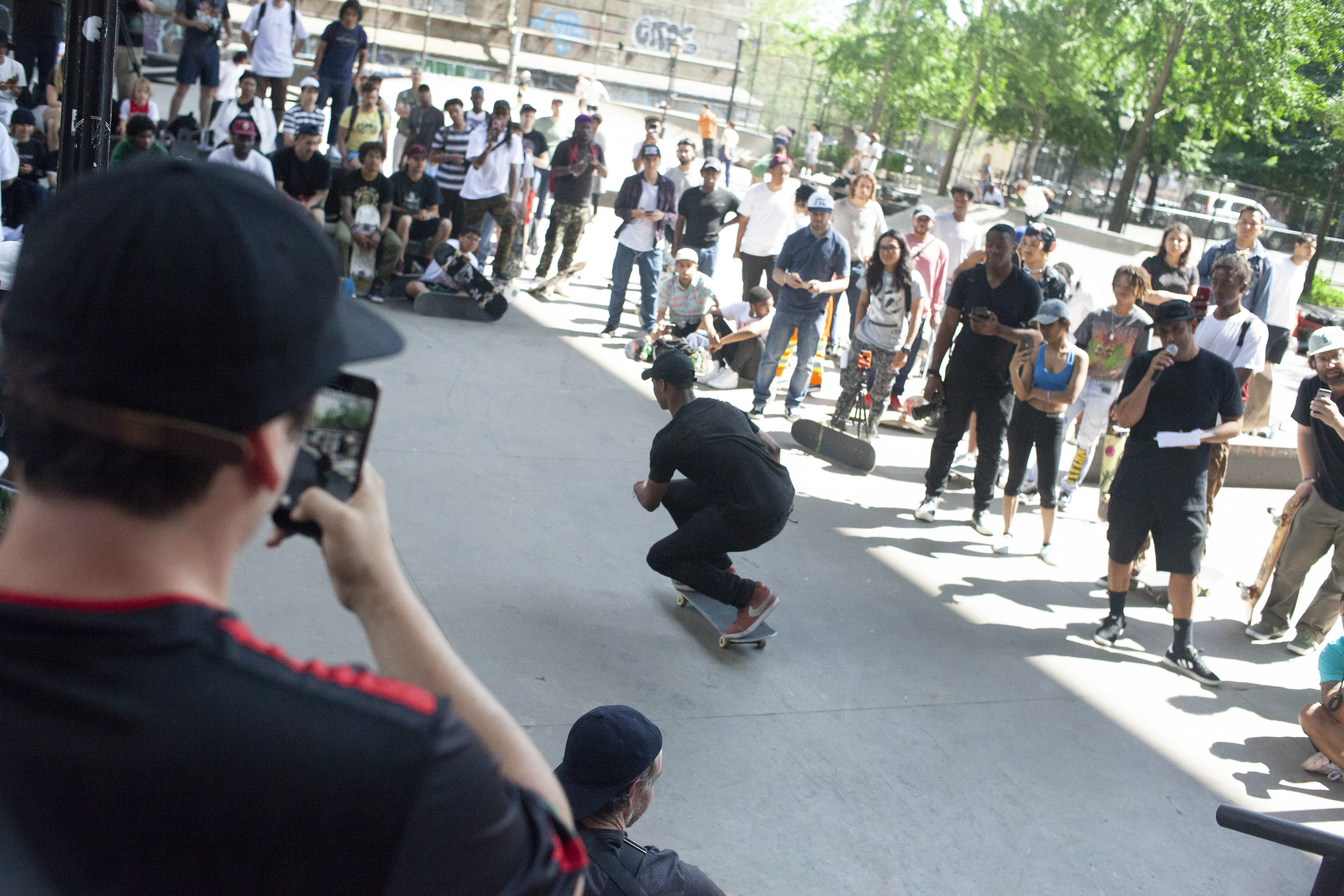 Andre Beverly rolls away after landing a trick at LES skatepark during the Best Trick Contest hosted by Red Bull Skate. Steve Rodriguez MC'd the event and holds the mic to the right of Beverly.